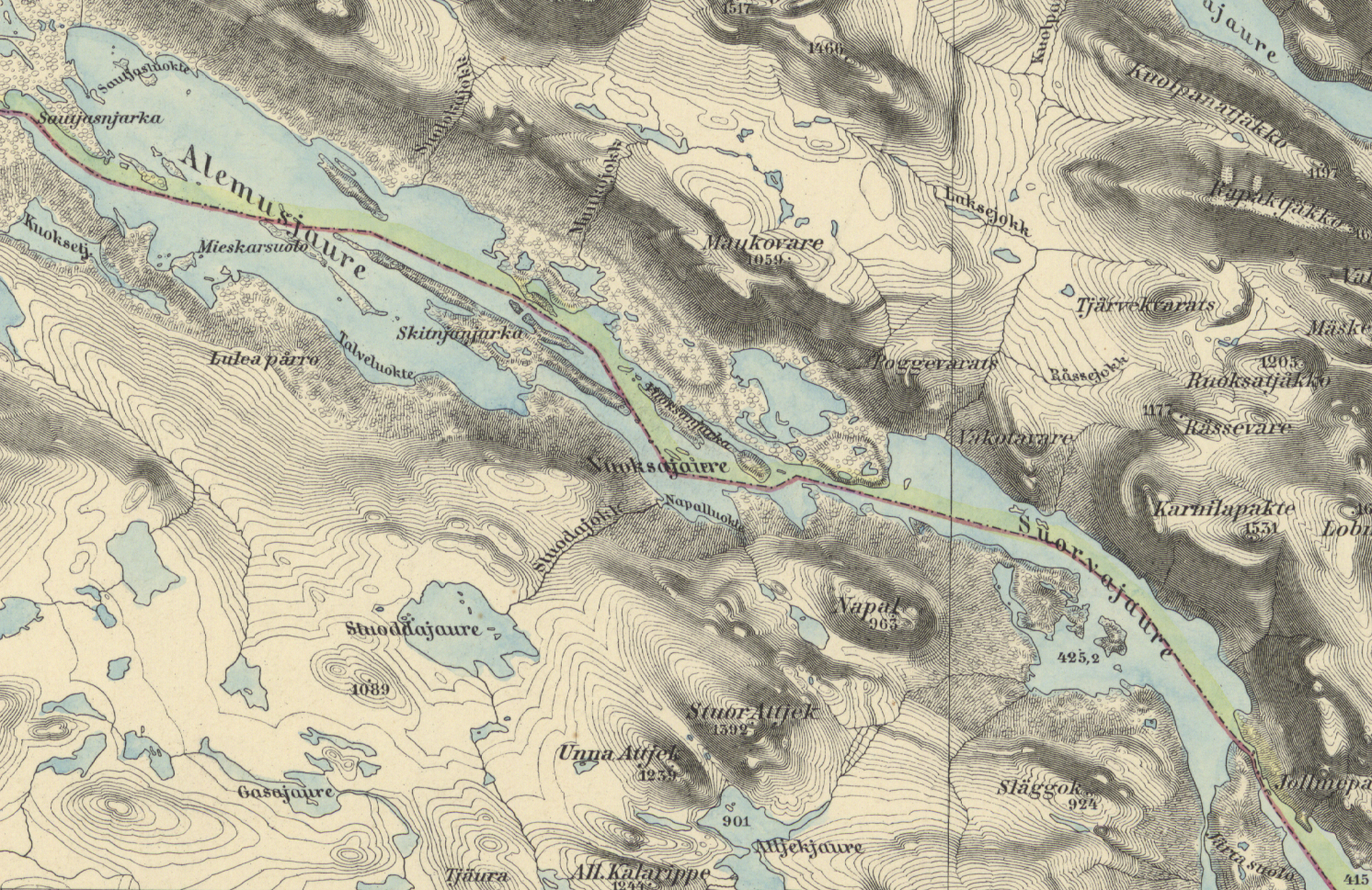 The lower part of the valley which is now covered by the artificial lake Akkajaure, as it was before the dam. Map from 1888.